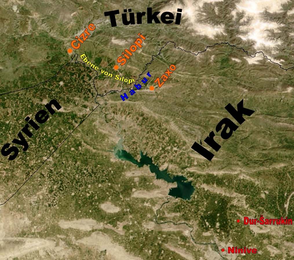 Towns in the plain of Silopi and Habur river (Hezil suyu), possible candidates for the lokalization of Kumme